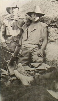 AWM caption : "Gallipoli. 1915. Two men of the 6th Battalion standing behind a Garland trench mortar near the front line. Note the feet of a resting soldier and some items of kit in the foreground."